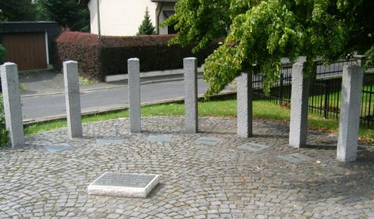 Memorial in the Jewish cemetery in Nümbrecht - Gedenkstätte am Jüdischen Friedhof in Nümbrecht Author mrfinch Time of creation 16 August 2004 Licence GNU FDL and CC-by-SA Camera Canon S 45